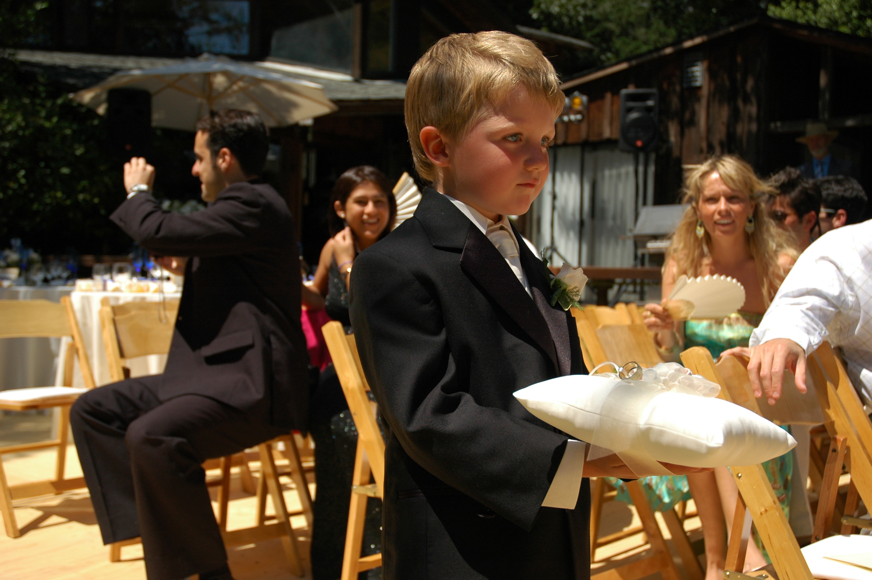 Little boy in a suit solemnly carries wedding rings on a pillow.